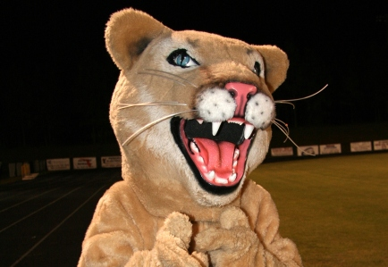 JPIICHS Mascot